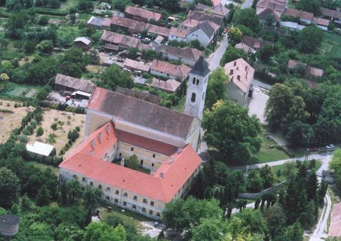 Franciscan Monastery, and Saint Ladislaus Church in Felsősegesd (Segesd), Hungary, aerialphotography This is a photo of a monument in Hungary. Identifier: 8068 This is a photo of a monument in Hungary. Identifier: 8066